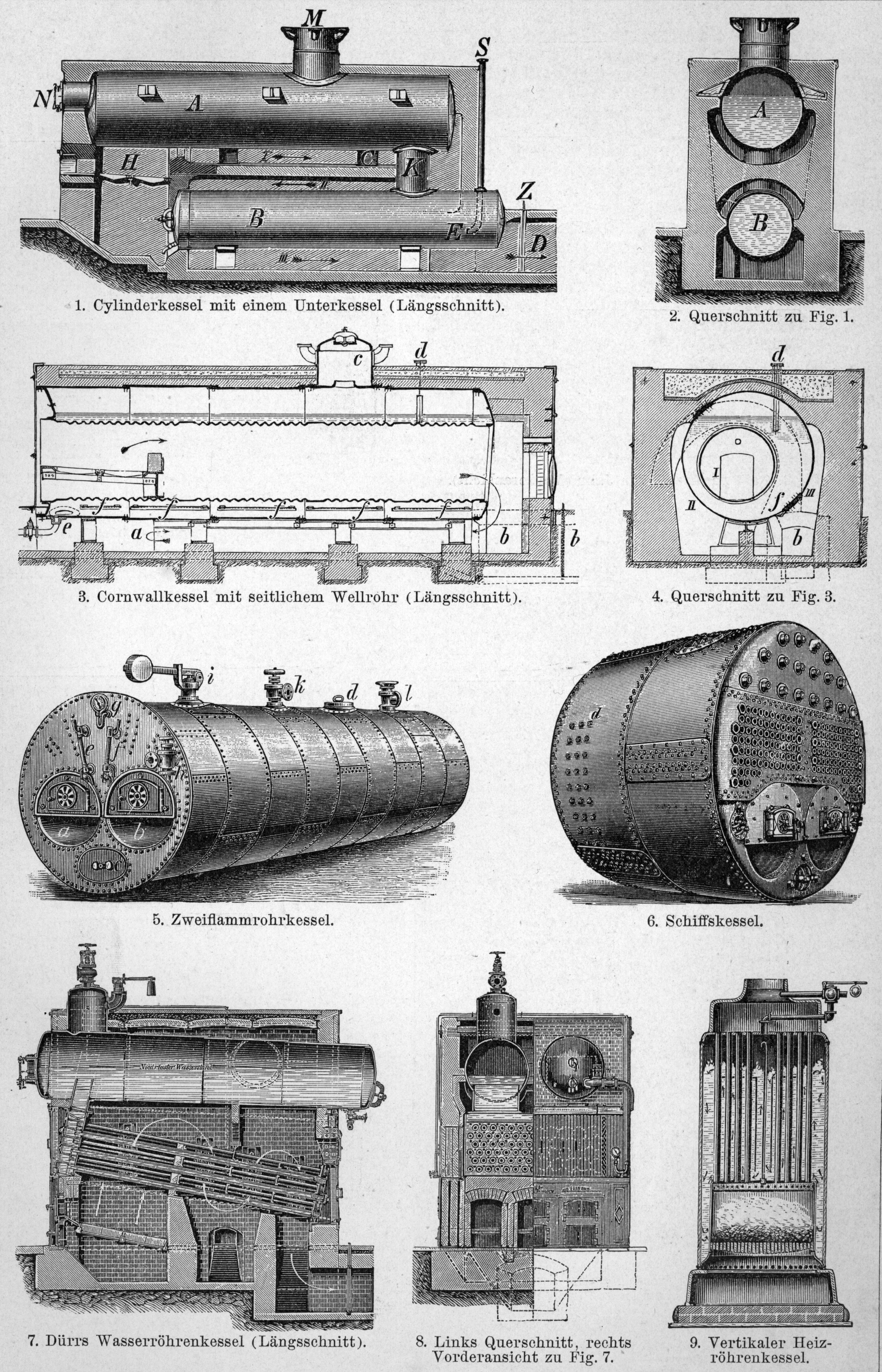 Steam engine technology, steam boilers